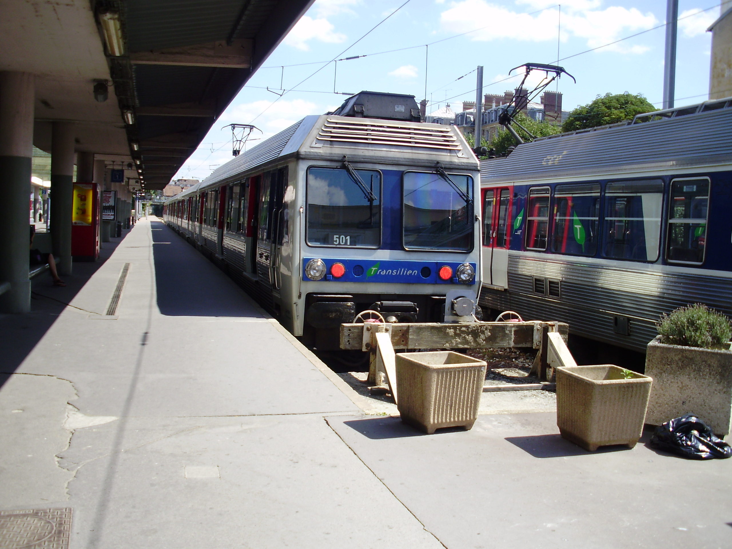 Versailles-Rive-Droite station, in Versailles, Yvelines, France (SNCF Class Z 6400 waiting the departure time to Paris-Saint-Lazare)